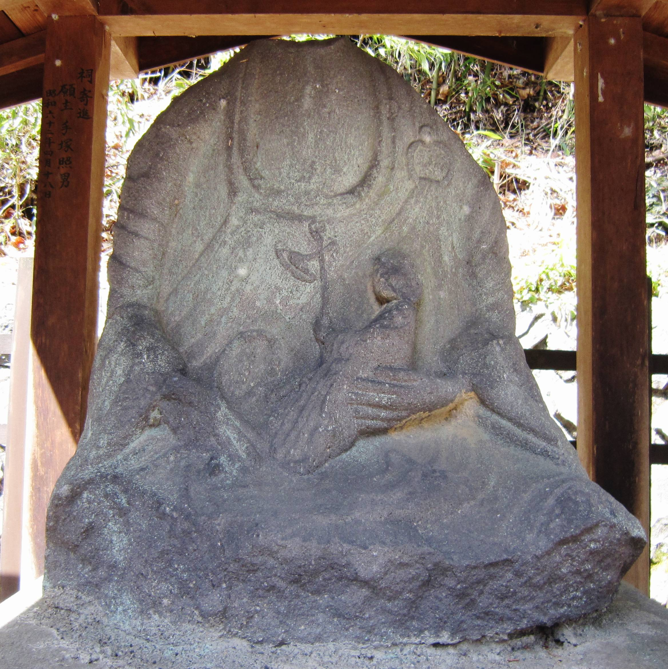 Daihoji temple (Shiojiri, Nagano) Maria jizo.